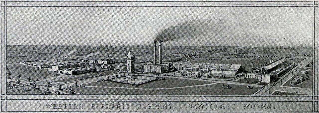 An aerial view of the Hawthorne Works plant ca. 1907, from their pamphlet "Hawthorne works for the manufacture of power apparatus".